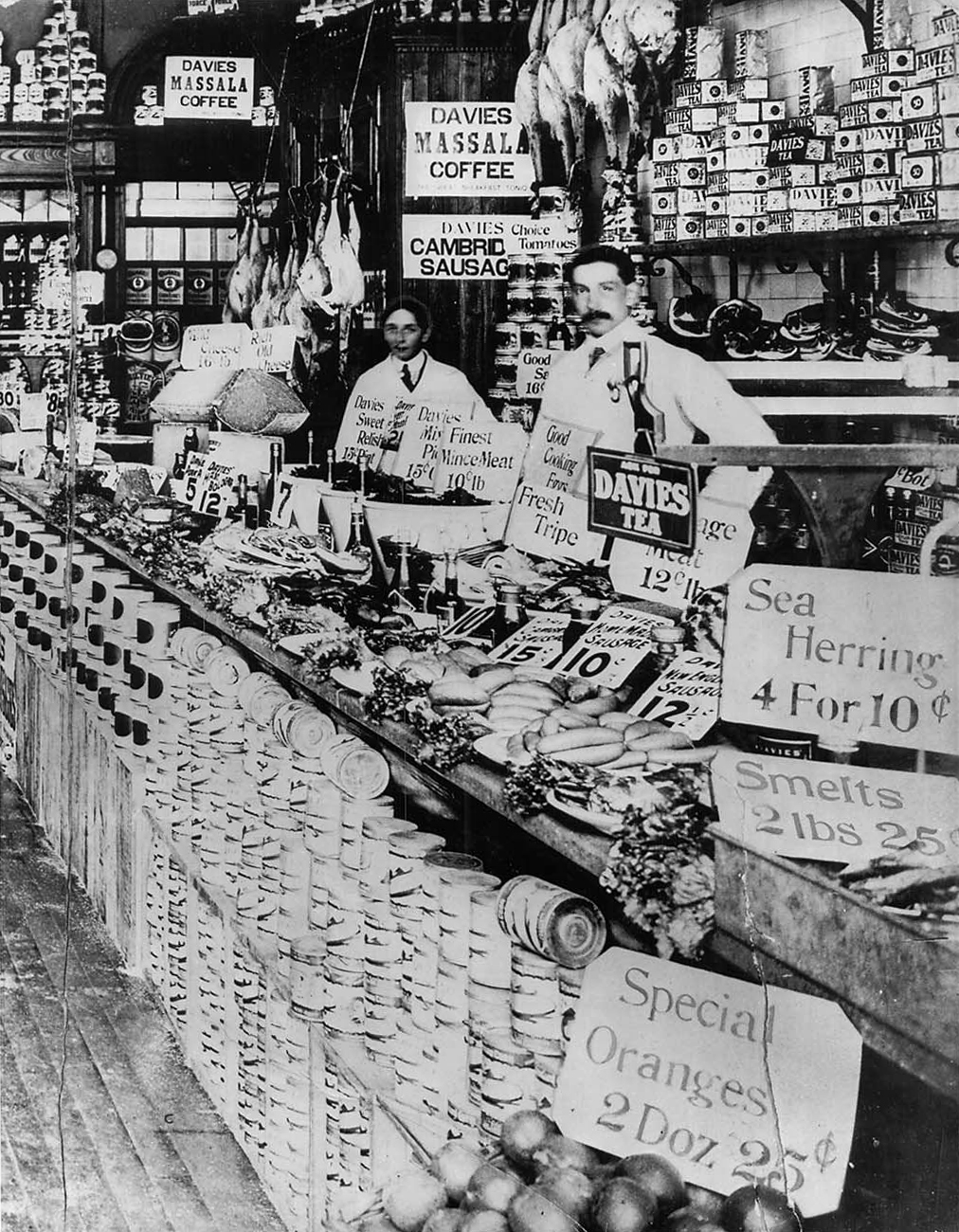 Interior of a William Davies Company store, on Queen Street, near Bay Street. Toronto, Canada.